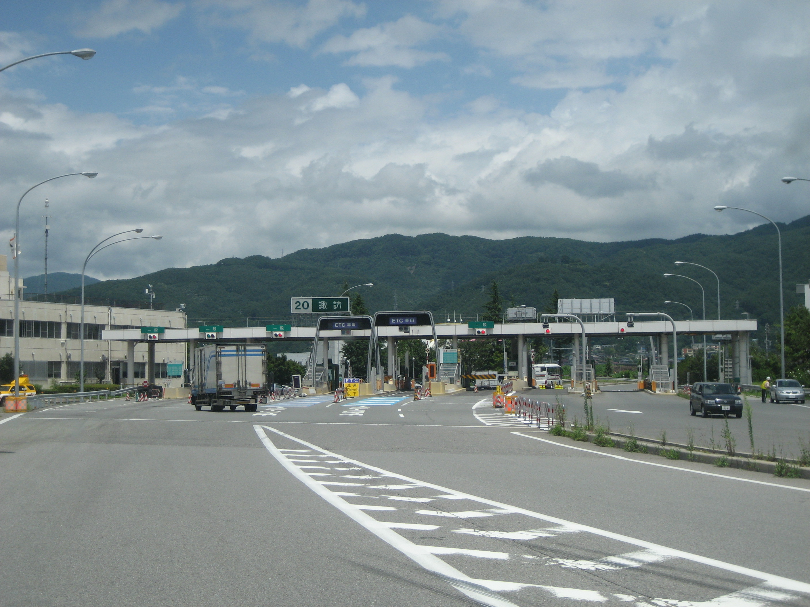 Toll gates at Suwa Interchange on the Chuo Expressway